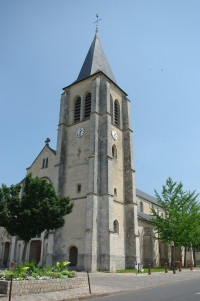 Église d'Olivet - prise par la mairie d'Olivet